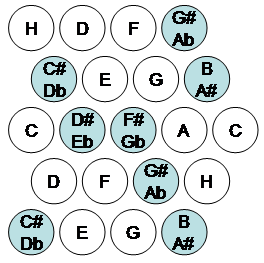 The Italian (and Finnish) system for button accordions, right hand